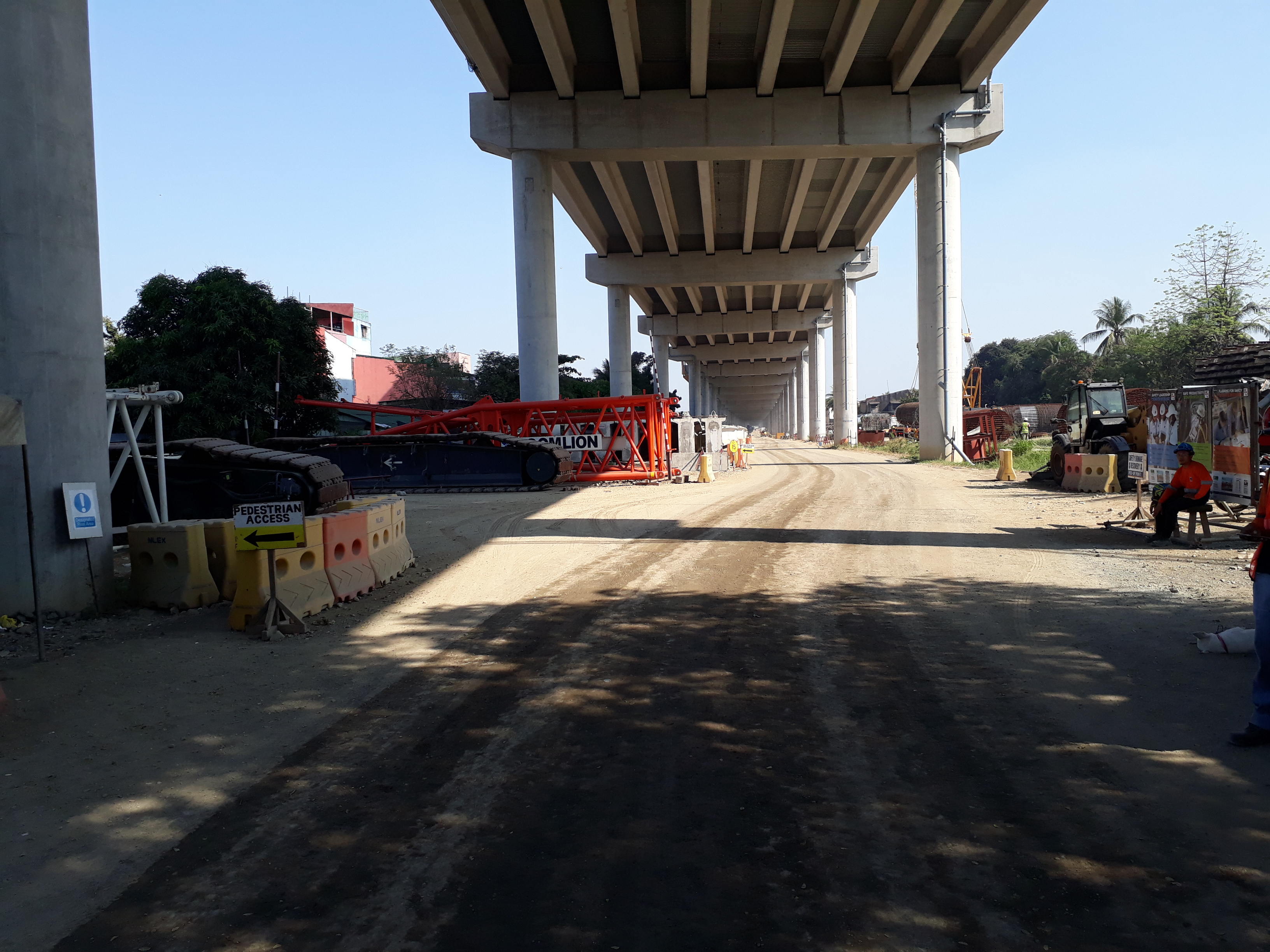 Construction of NLEX Segment 10 elevated toll road in Sangandaan, Caloocan